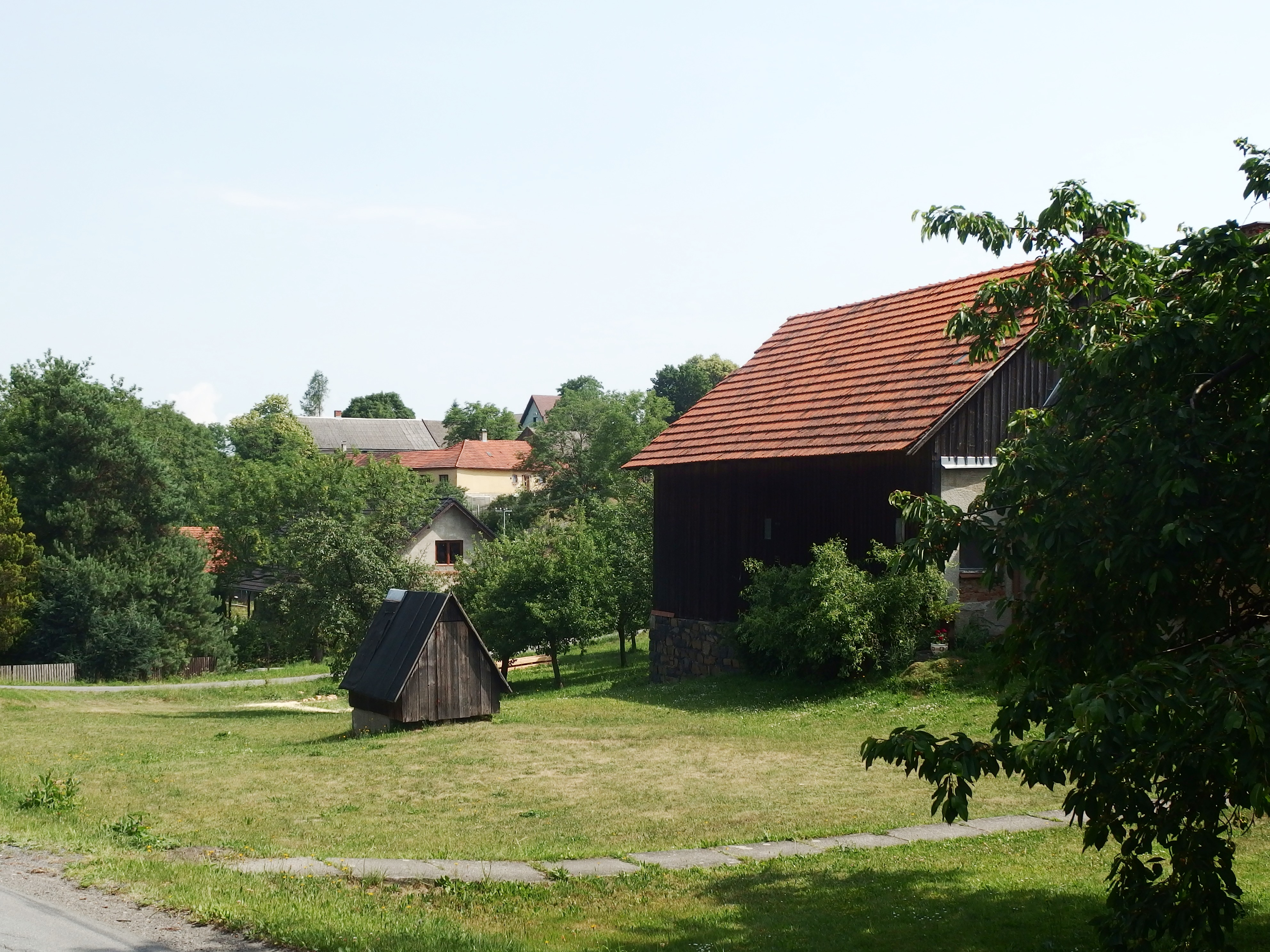 Odry, Nový Jičín District, part Dobešov, Czech Republic.